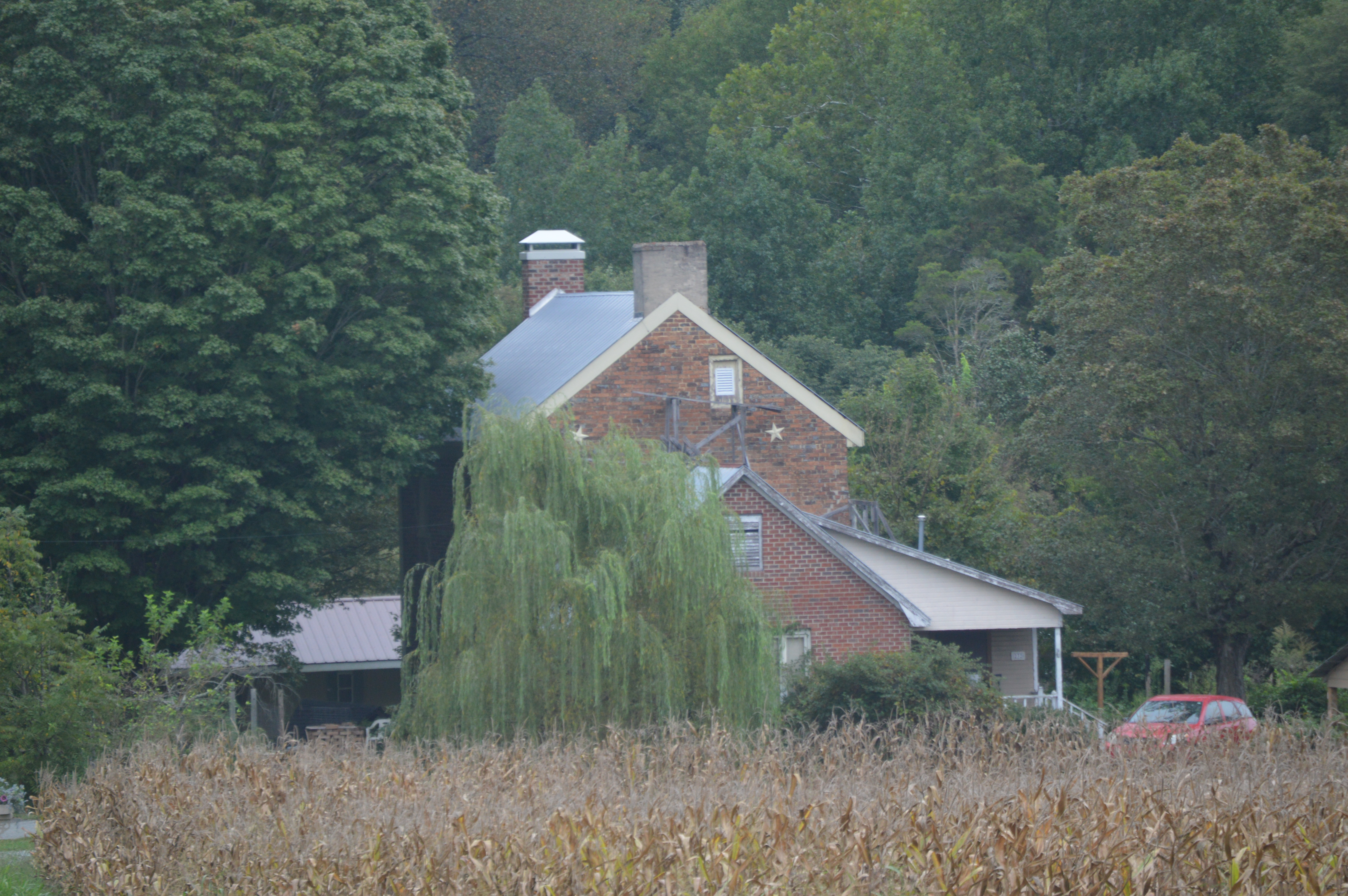 Western end of the Shadrach Lambeth House, located off Tower Road just southeast of Thomasville in Davidson County, North Carolina, United States. Built in 1837, it is listed on the National Register of Historic Places.